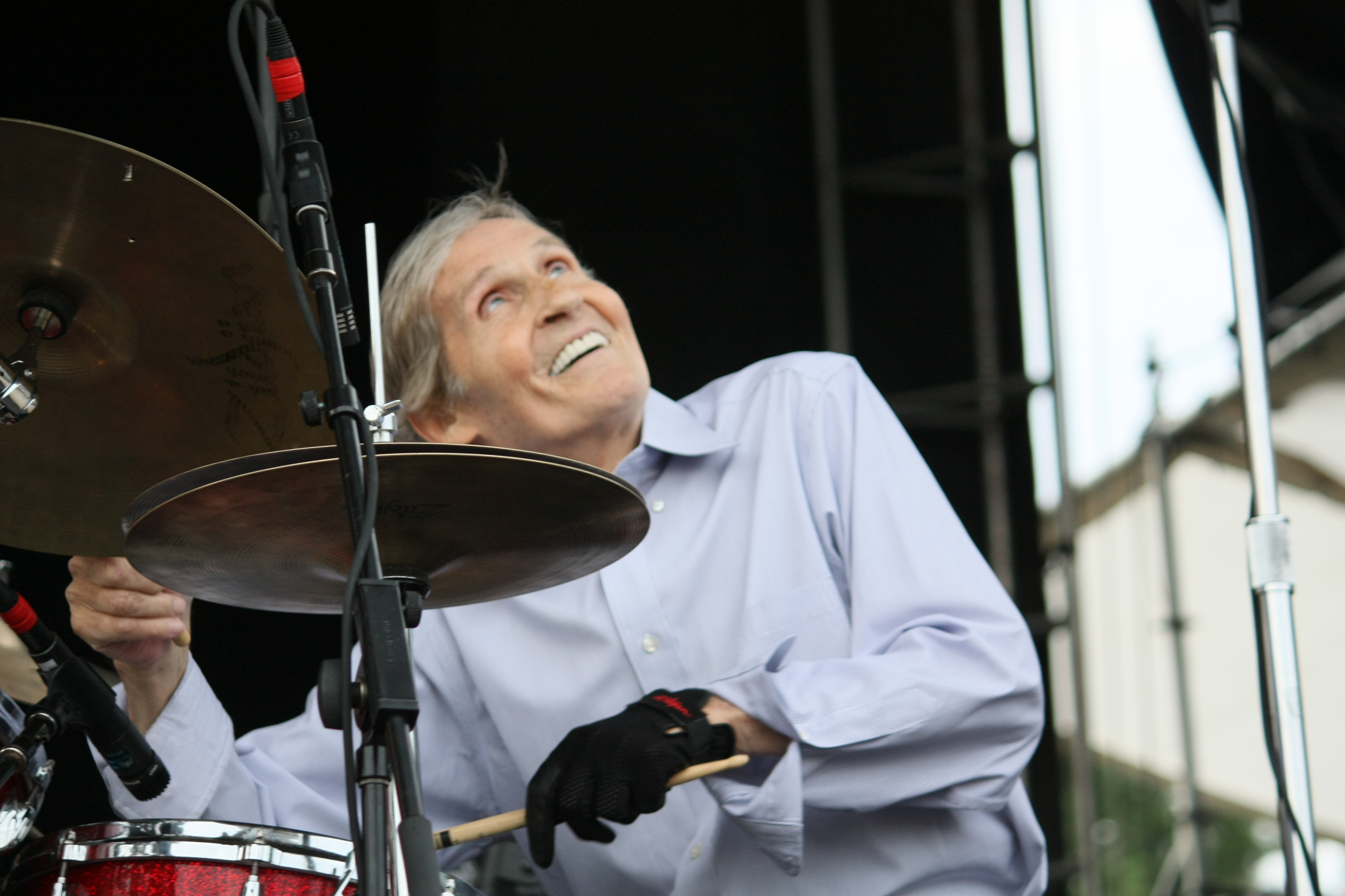 Levon looks to sky during his performance in Canton, MA at the Life is Good Festival in 2011.